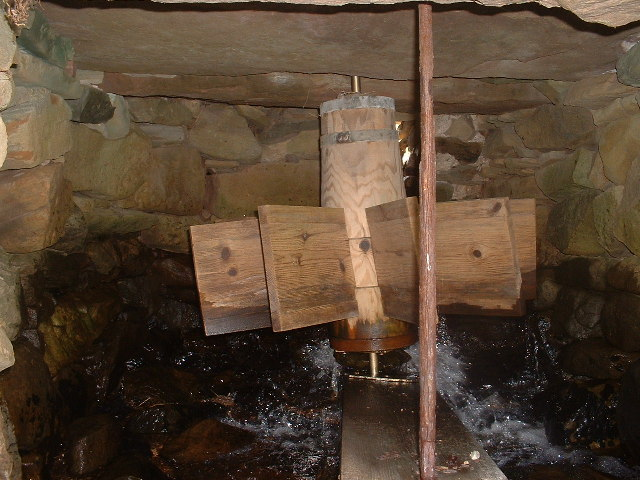 Huxter Mills, Shetland - a horizontal wheel. These ancient mills had the wheel mounted horizontally, with the shaft directly connected to millstones on the floor above. The mill could be 'switched' on by lowering the wheel into the stream. The iron bar in the foreground is the lever for this. Built in Norse times, and still in use in the 20th century